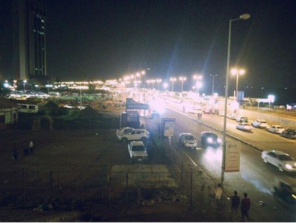 the night view for Nile Street, Khartoum, from above a bridge. This is an image of food from Sudan